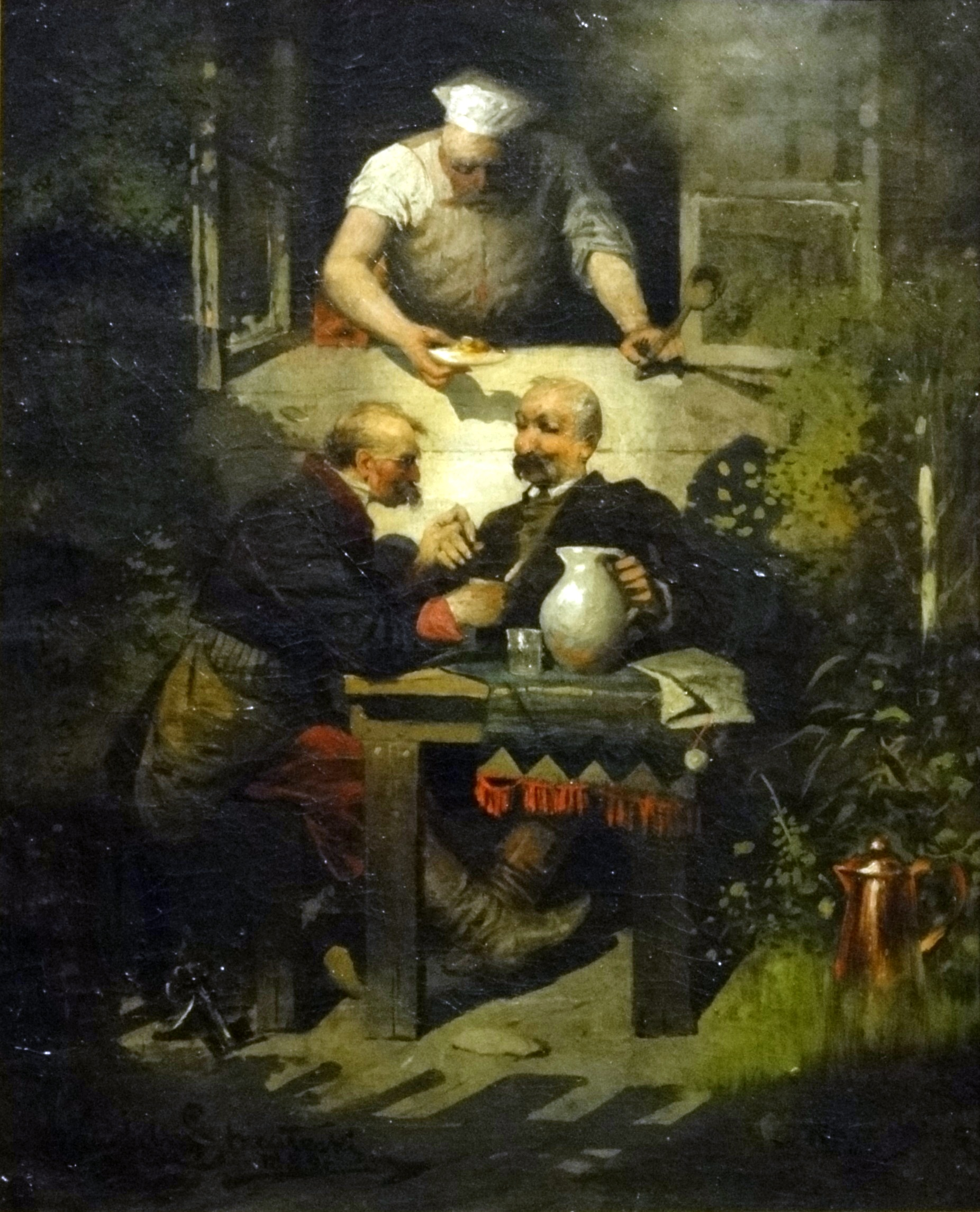 Yes, Indeed, Dear Gervaise by Wandalin Strzałecki, oil on canvas, 1884, collection of the National Museum of Warsaw